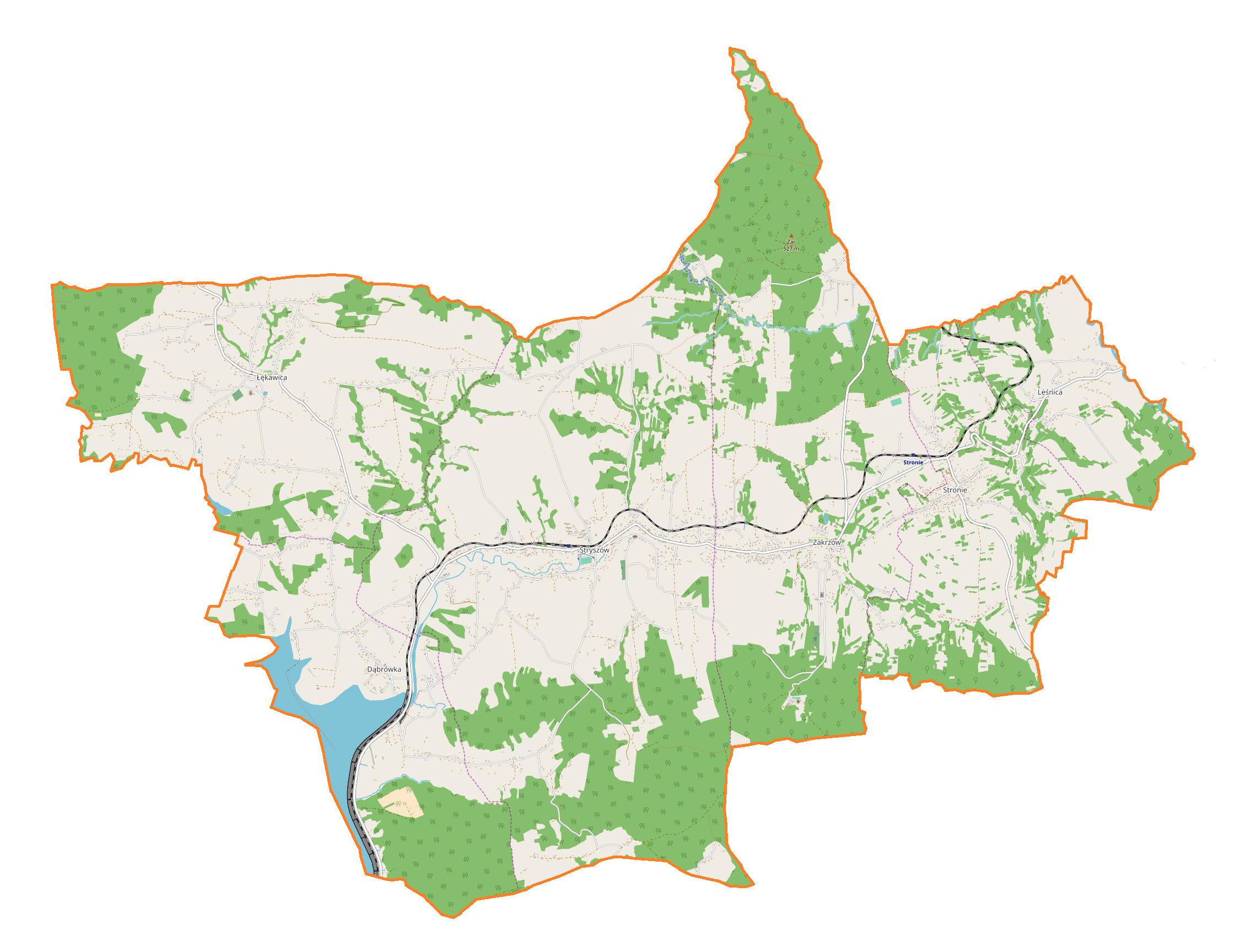 Location map